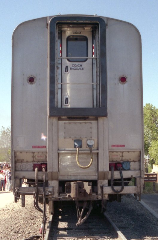 The end of a coach-baggage Superliner on display at Railfair '91 at the California State Railroad Museum in Sacramento, California, May 10, 1991. Photo by Sean Lamb (User:Slambo)